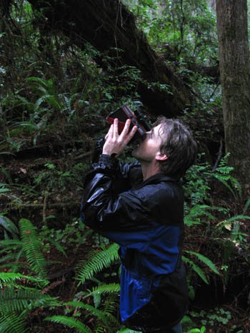 Michael Taylor - tall tree discoverer - in Redwood National Park doing a preliminary measurement with a laser rangefinder. Near Lost Man Creek.